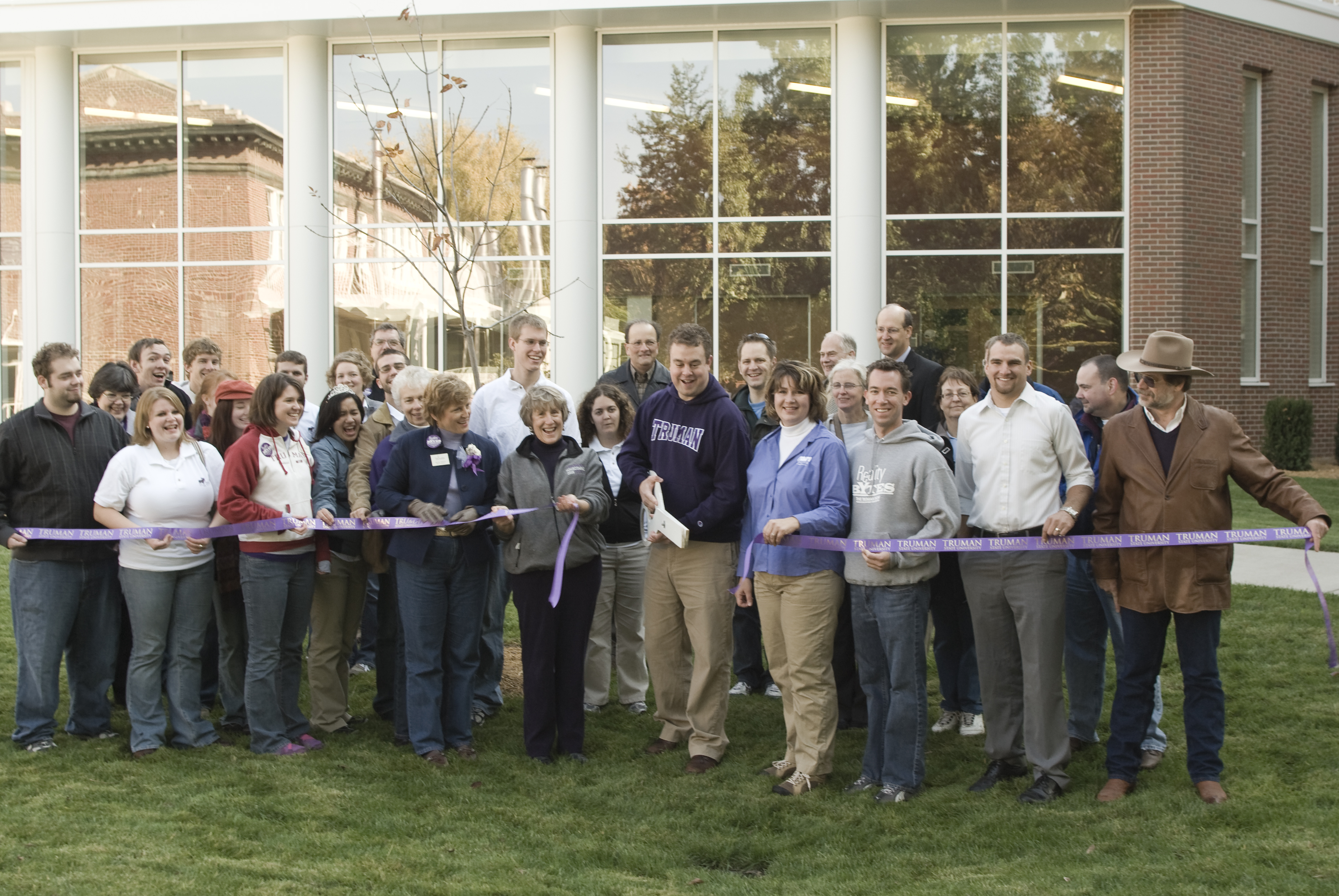 The ribbon cutting for the newly renovated Missouri Hall at Truman State University's Homecoming celebrations in 2007. The building closed in May 2006 for renovation and reopened in August 2007. Featured in the picture are former University president Dr. Barbara Dixon, Dean of Student Affairs Dr. Lou Ann Gilchrist, and former Director of Residence Life Andrea O'Brien. Cutting the ribbon is long time Missouri Hall Director Zachary Burden.